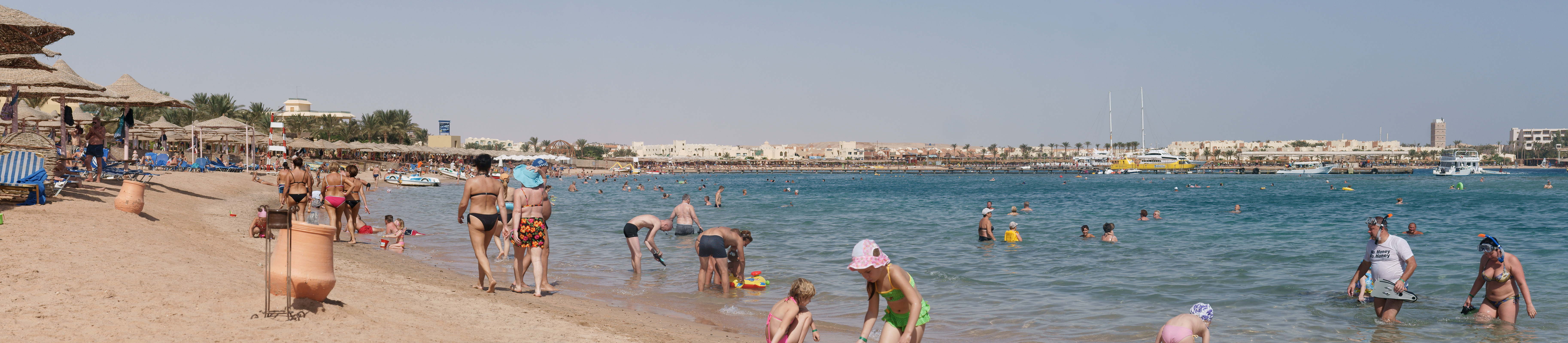 Panorama of the Beach of Makadi Bay, Egypt.